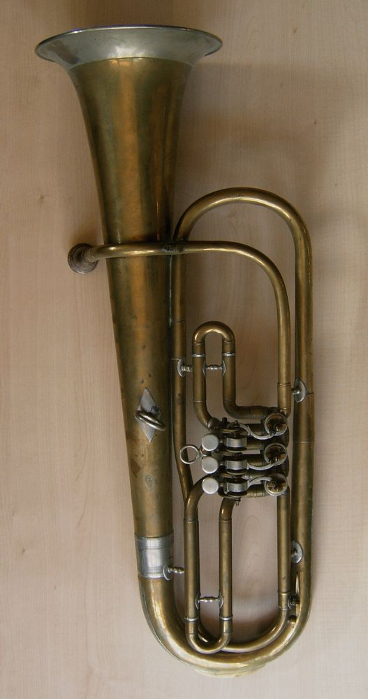 German Tenorhorn